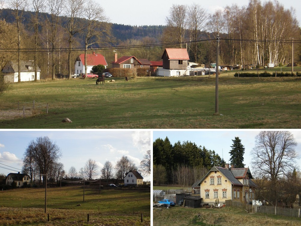 Kamenná (Krásná), Cheb District, Czech Republic